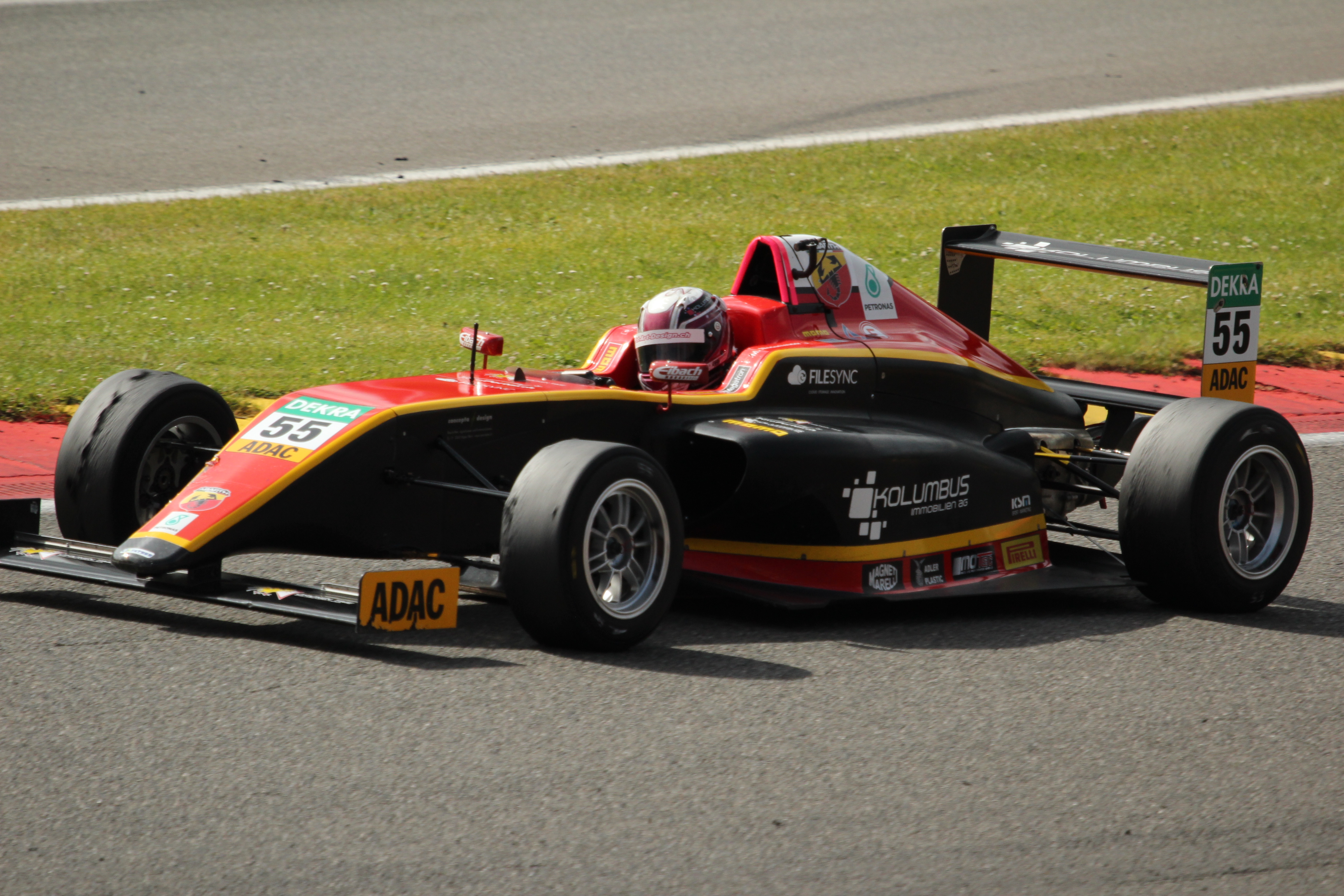 Marylin Niederhauser at Spa in 2015, German Formula 4 Championship